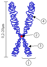 Chromosome. (1) Chromatid. One of the two identical parts of the chromosome after S phase. (2) Centromere. The point where the two chromatids touch, and where the microtubules attach. (3) Short arm (4) Long arm.